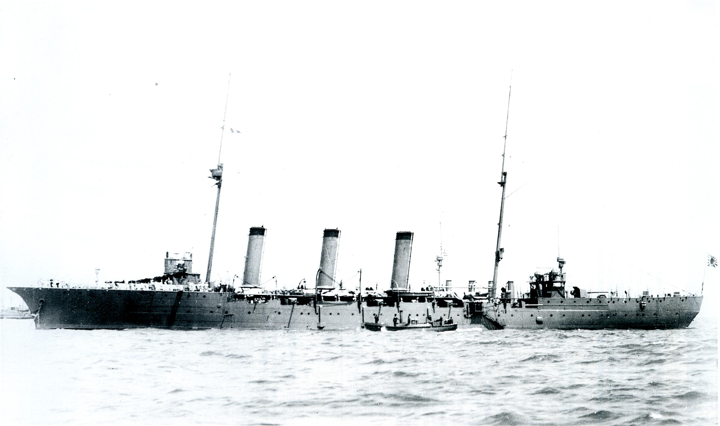 Japanese cruiser Tone at Portsmouth in 1911